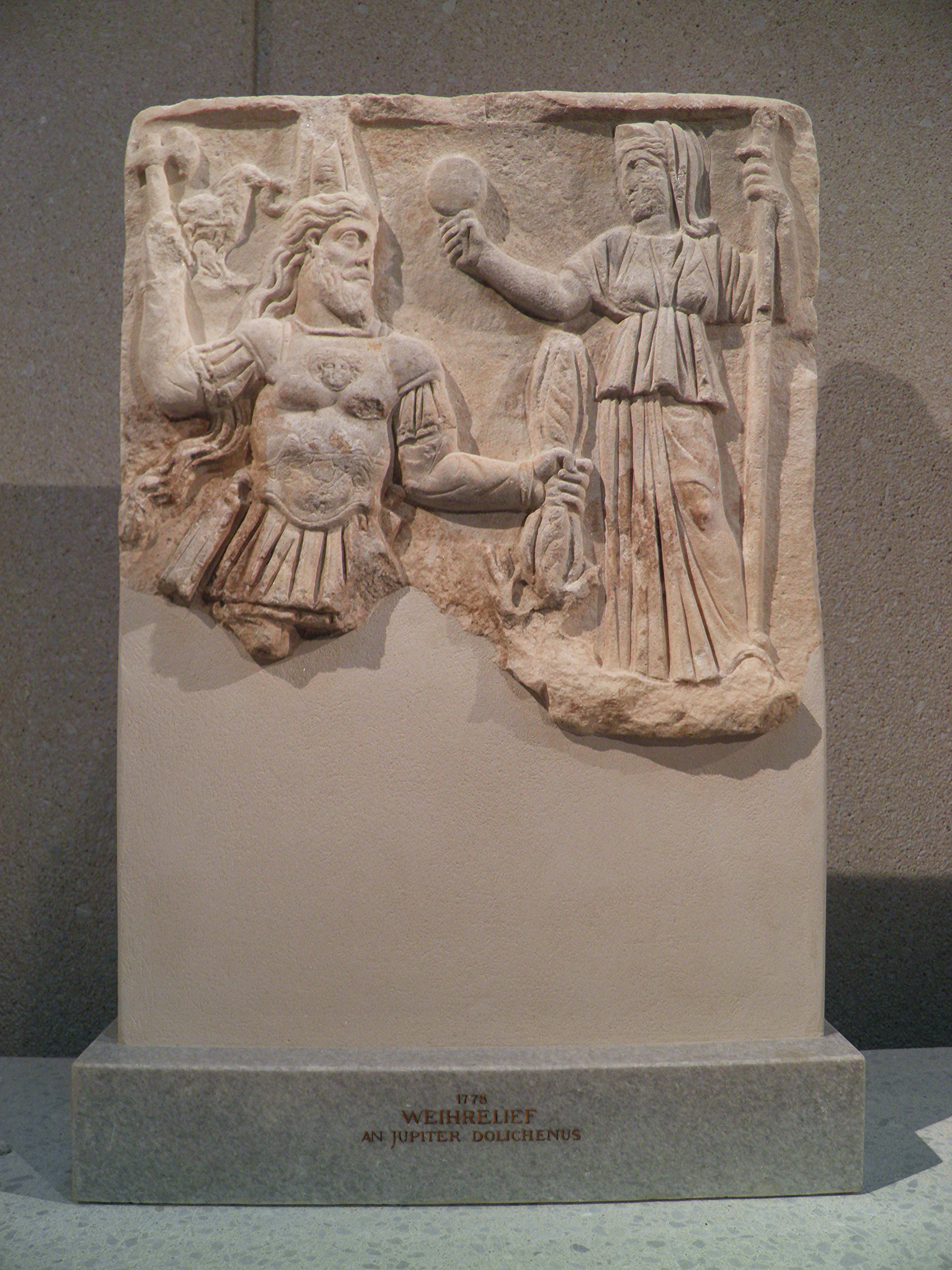 Votive relief to Jupiter Dolichenus and Juno, Jupiter with tiara, sword, an ax and lightning bundle, Juno has a mirror and a scepter, 3rd century AD, from Rome, Neues Museum, Berlin